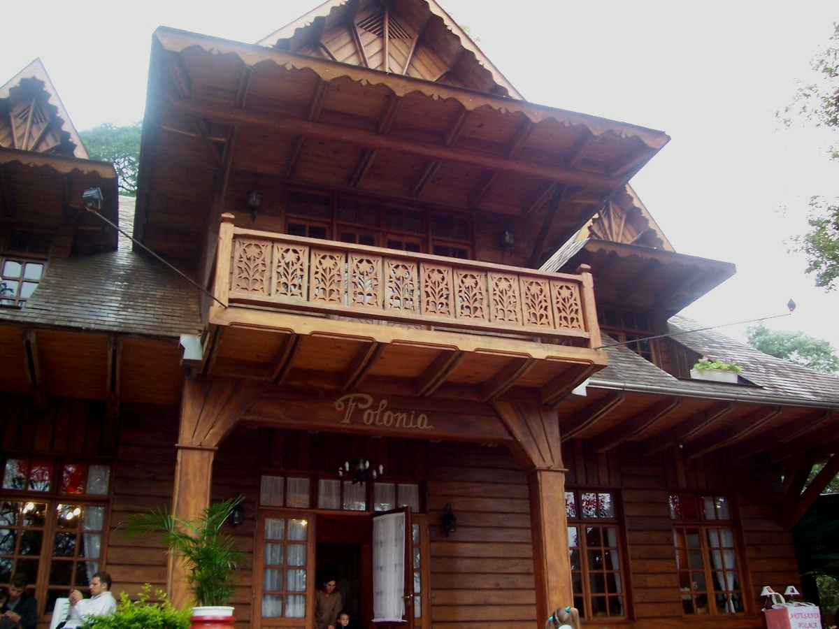 The Polish House, in the Park of the Nations, within the framework of XXVI the National Immigrants' Festival, in Oberá, Misiones Province, Argentina.